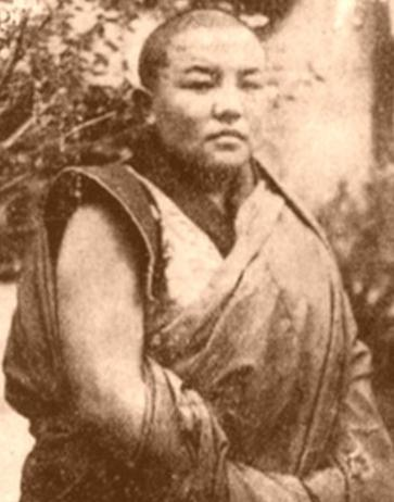 5th Jamyang Shêpa (1916-1947)